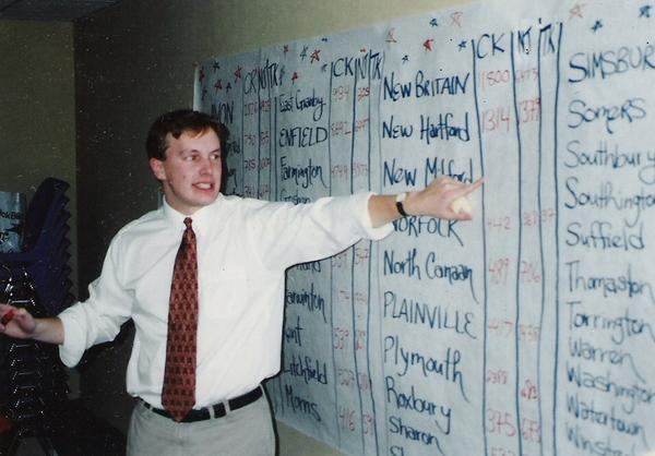 Election night 1996, explaining to crowd that Koskoff leads Johnson w only New Milford left. #throwbackthursday